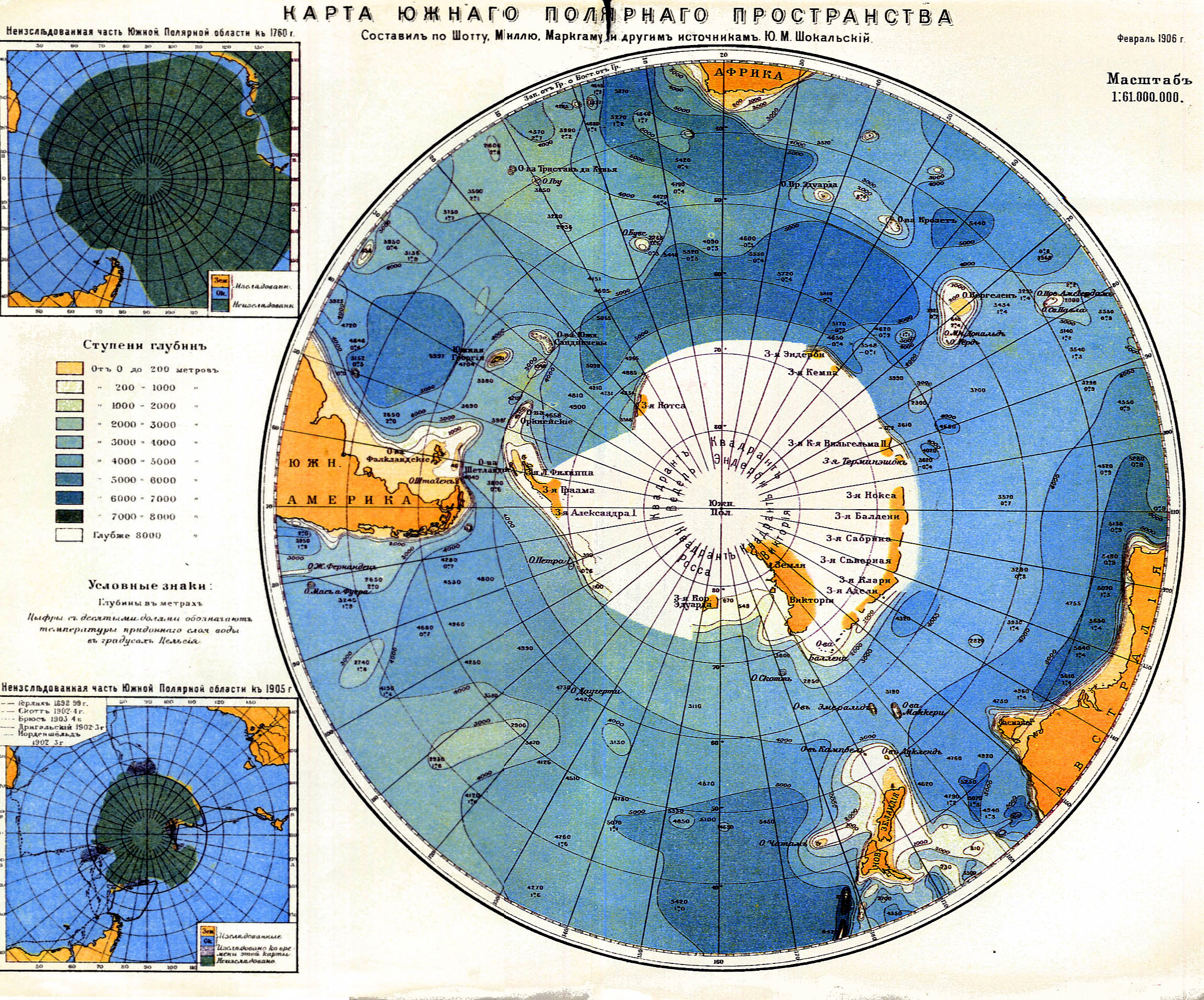 Illustration from Brockhaus and Efron Encyclopedic Dictionary (1890—1907)